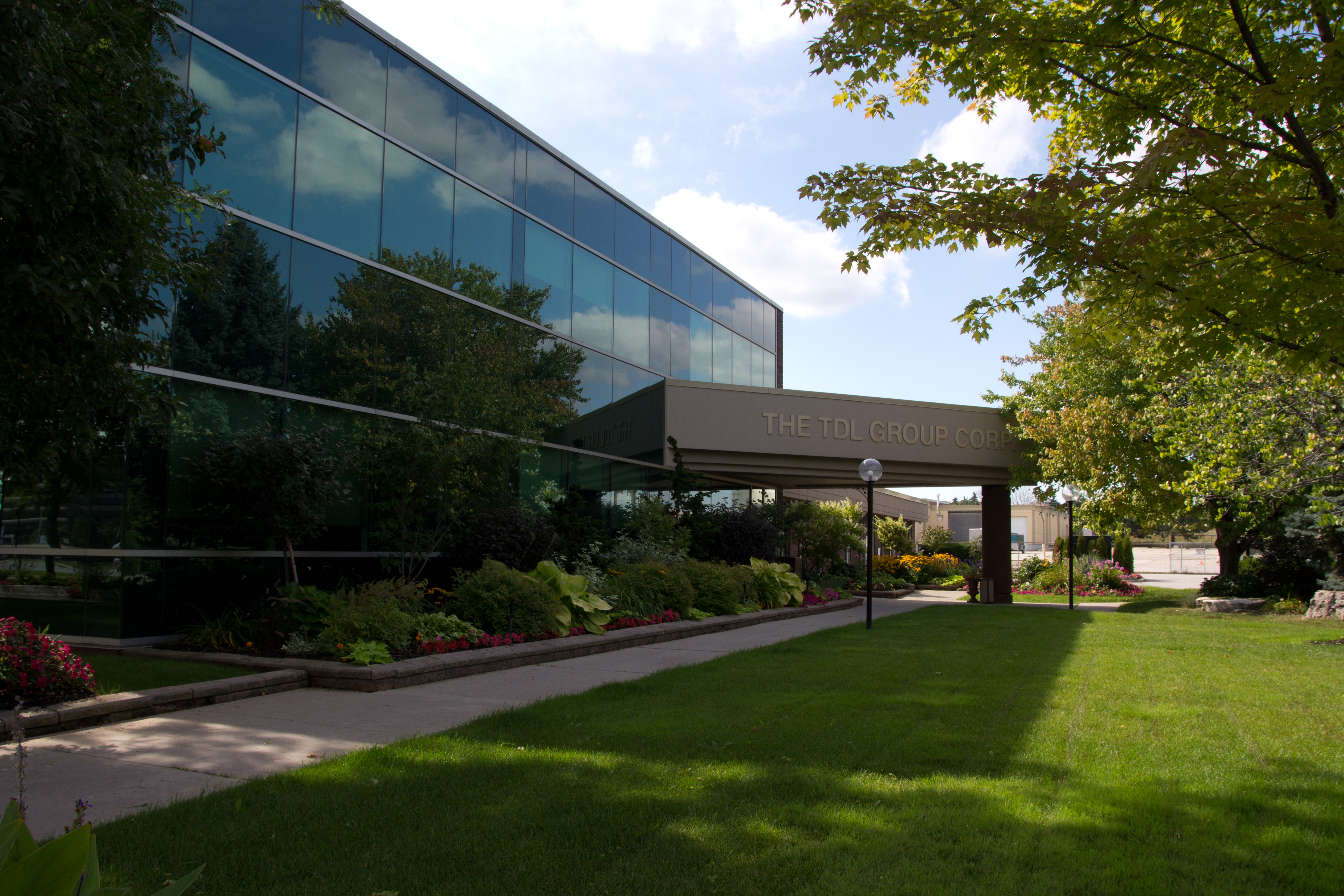 Tim Hortons corporate headquarters in Oakville, Ontario, Canada